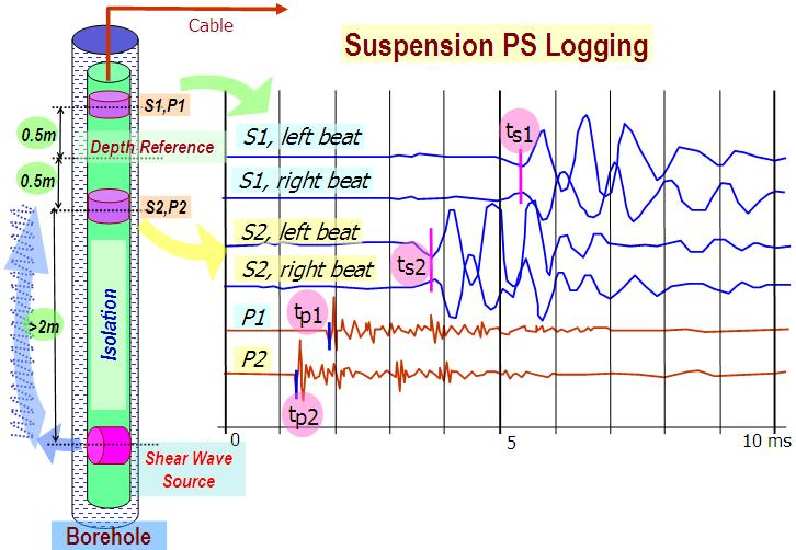 Outlines of Suspension PS Logging